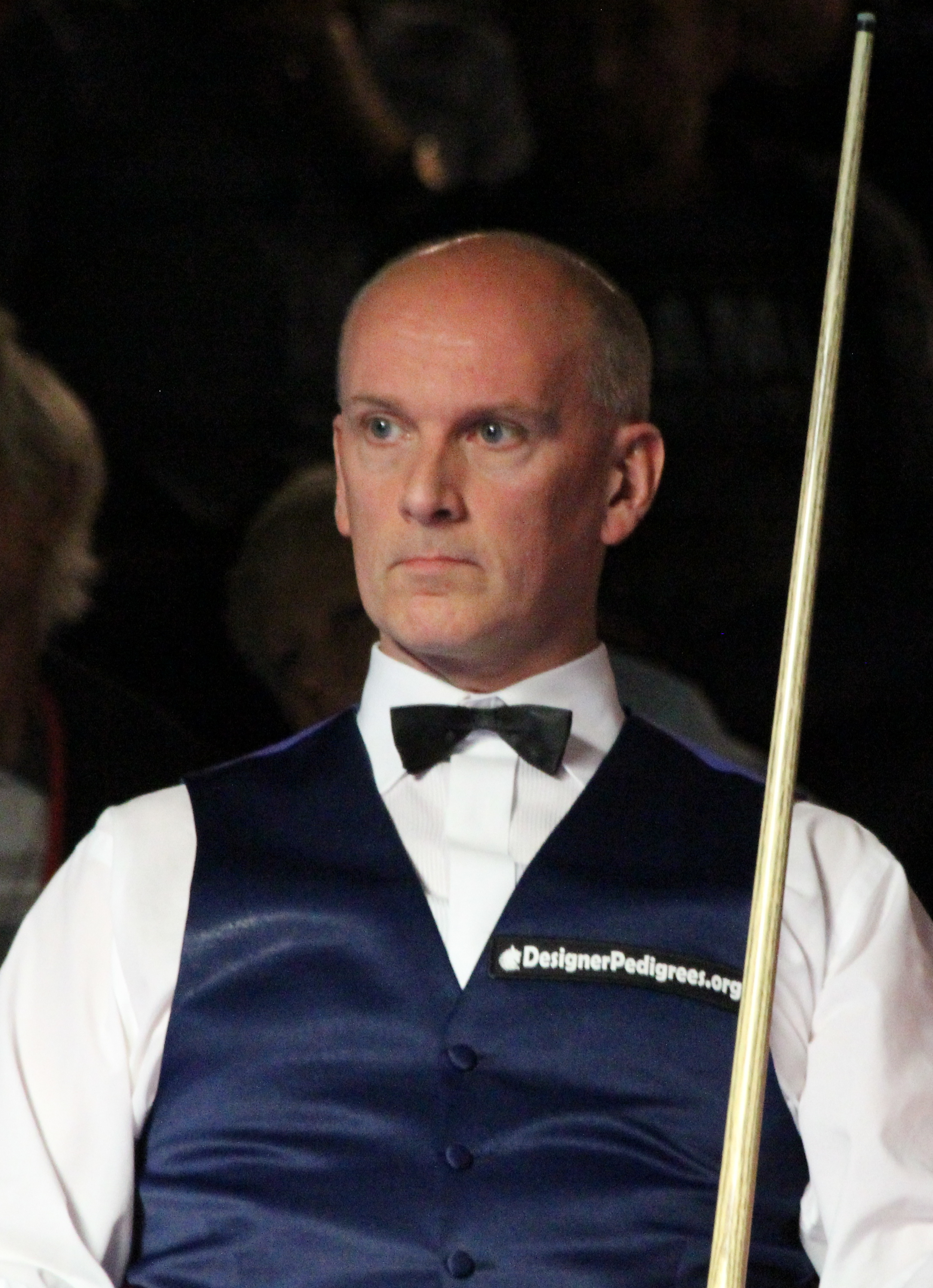 Peter Ebdon at the Paul Hunter Classic 2018